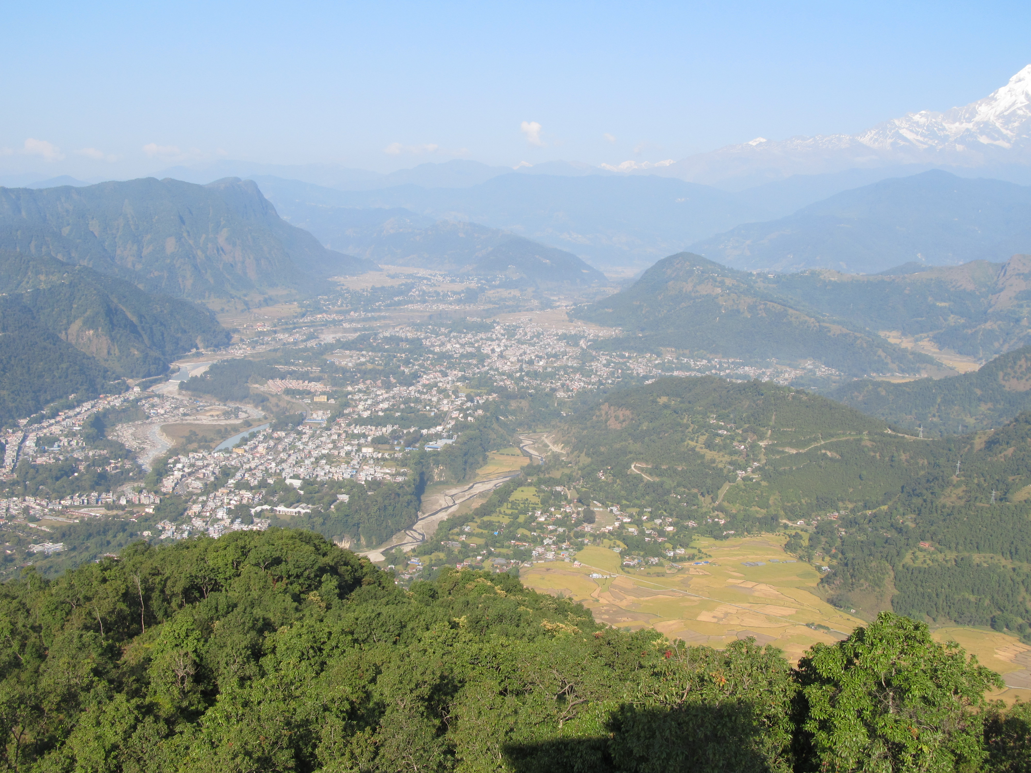 The north of Pokhara seen from Kahundanda looking west